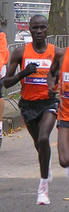 Solomon Bushendich on his way to victory in the 2006 Amsterdam Marathon.